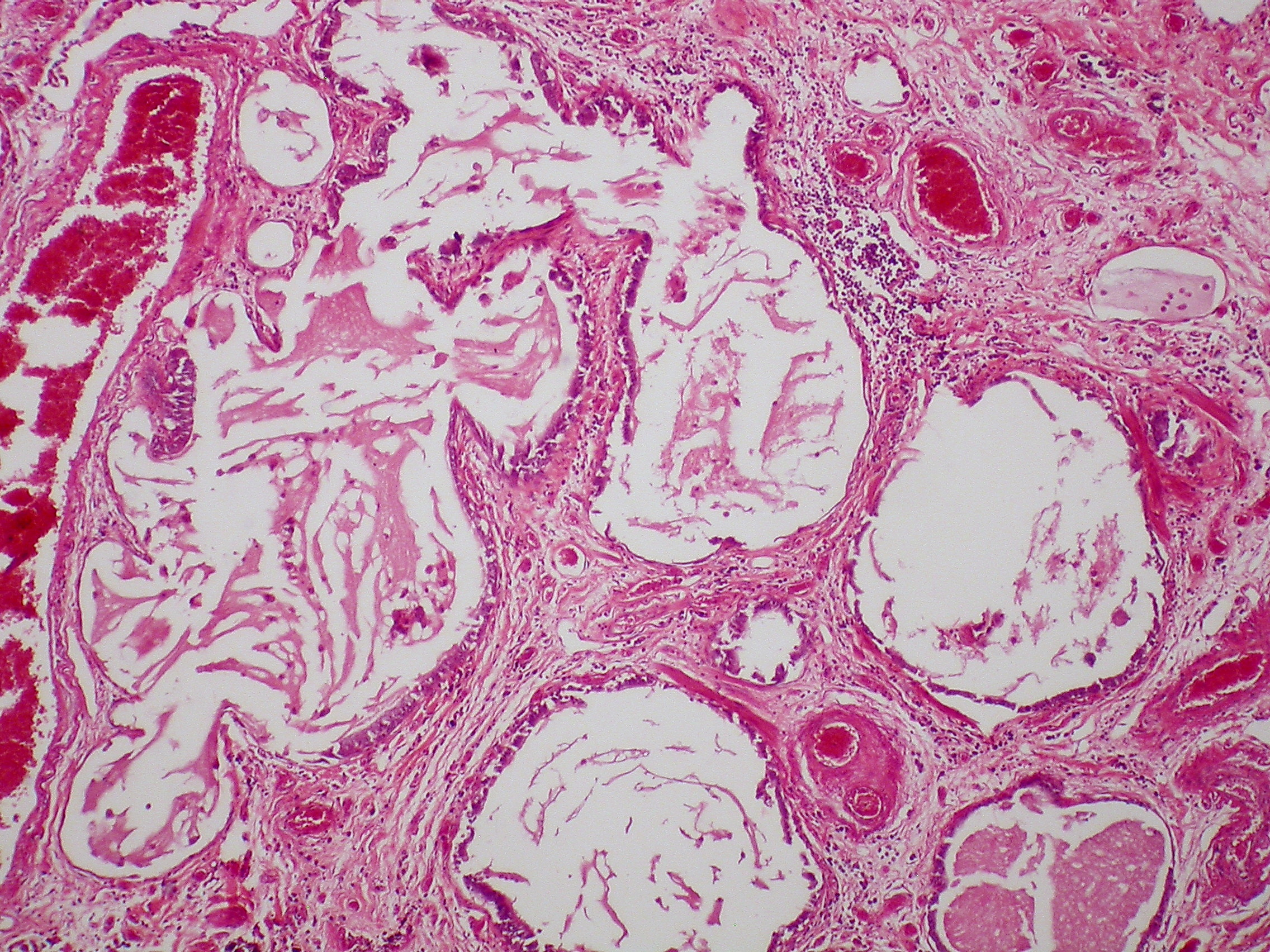 Scleroderma - UIP - Honeycomb fibrosis Case 221